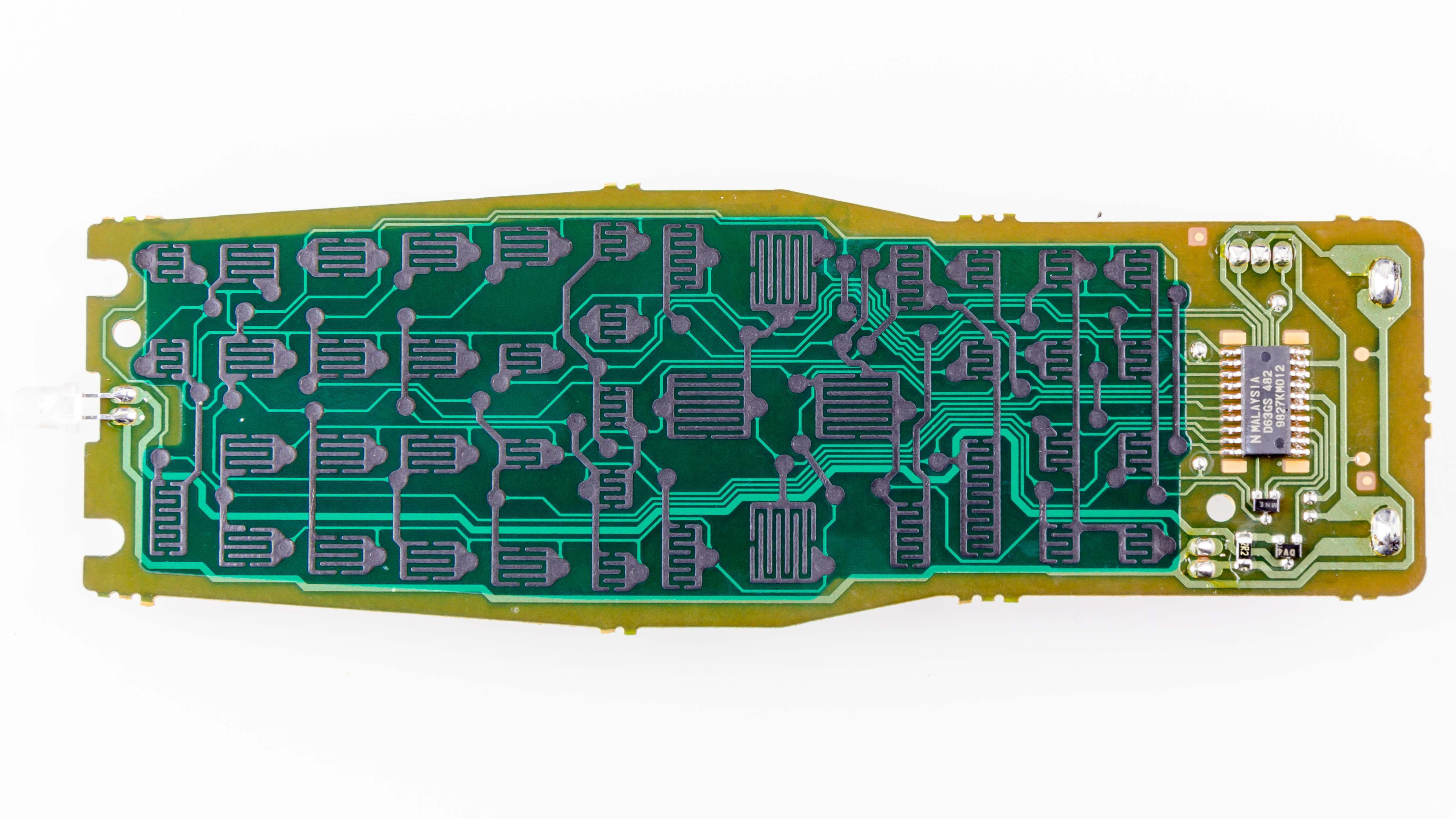 Alps remote control BHR970001B